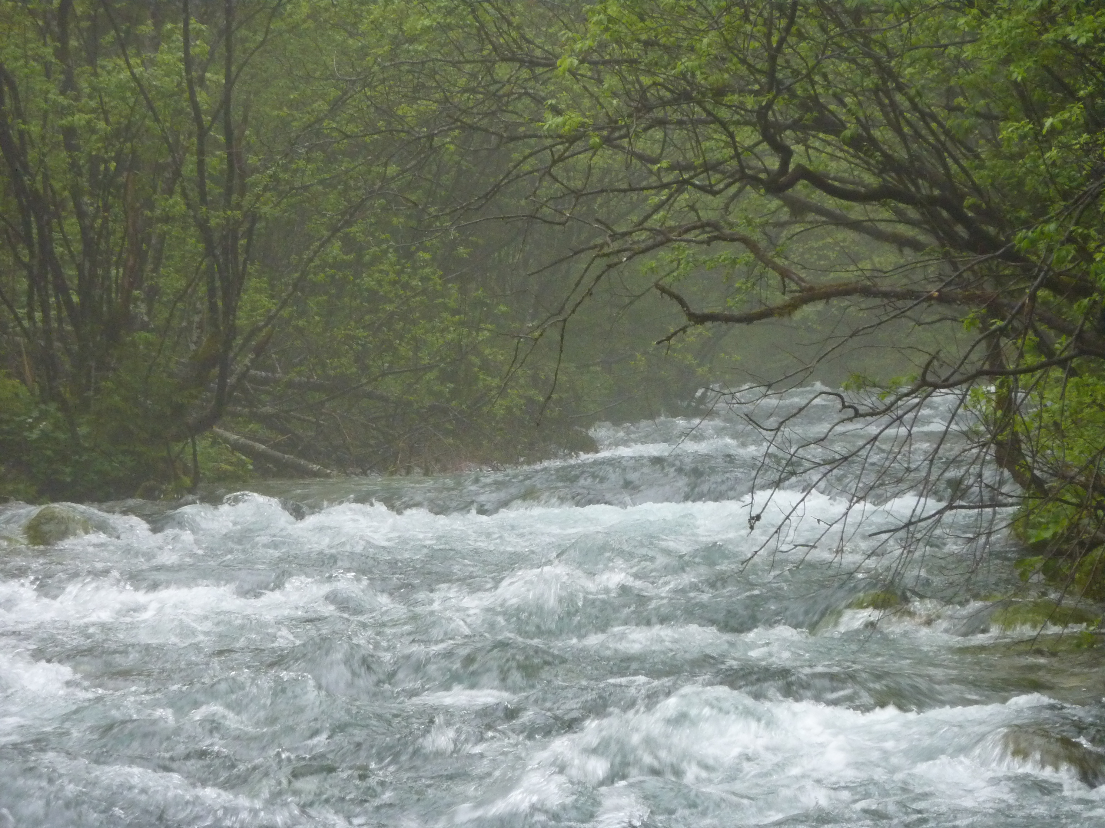 Kamniška Bistrica River in its upper course